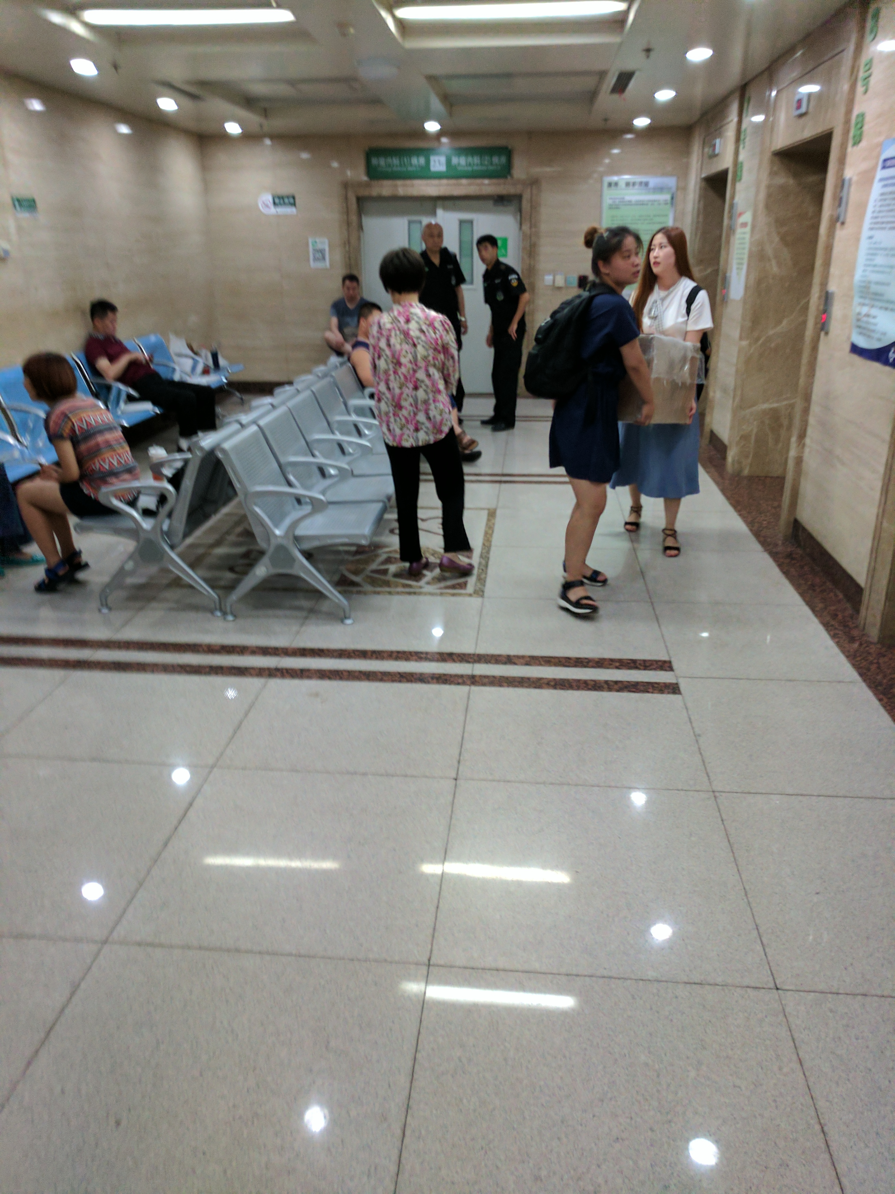 The First Hospital of China Medical University in Shenyang. Photoed on Jul 14th, 2017, the next day Liu Xiaobo dies. This is the 23rd floor. Some "Guonei Anquan Baowei", which means secret polices who in charge of political sensitive matters, including Liu Xiaobo's death patrolling here. (These two men in black. And there are also some "Guonei Anquan Baowei" in civilian clothes sitting.